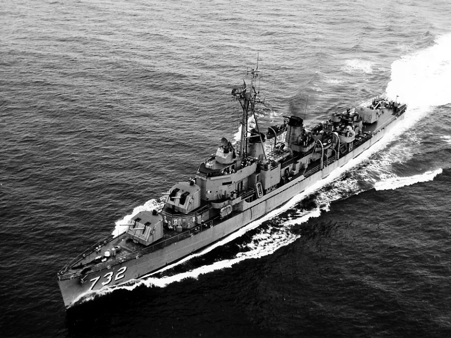 The U.S. Navy destroyer USS Hyman (DD-732) underway during the early or middle 1950s. Note that the ship still carries 40 mm guns (replaced by 76 mm/50s by mid-decade) and 20 mm guns, but has a tripod foremast and SPS-6 radar (both typically fitted during the early '50s).